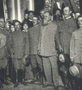 Former mexican president Venustiano Carranza and Álvaro Obregón (1914)